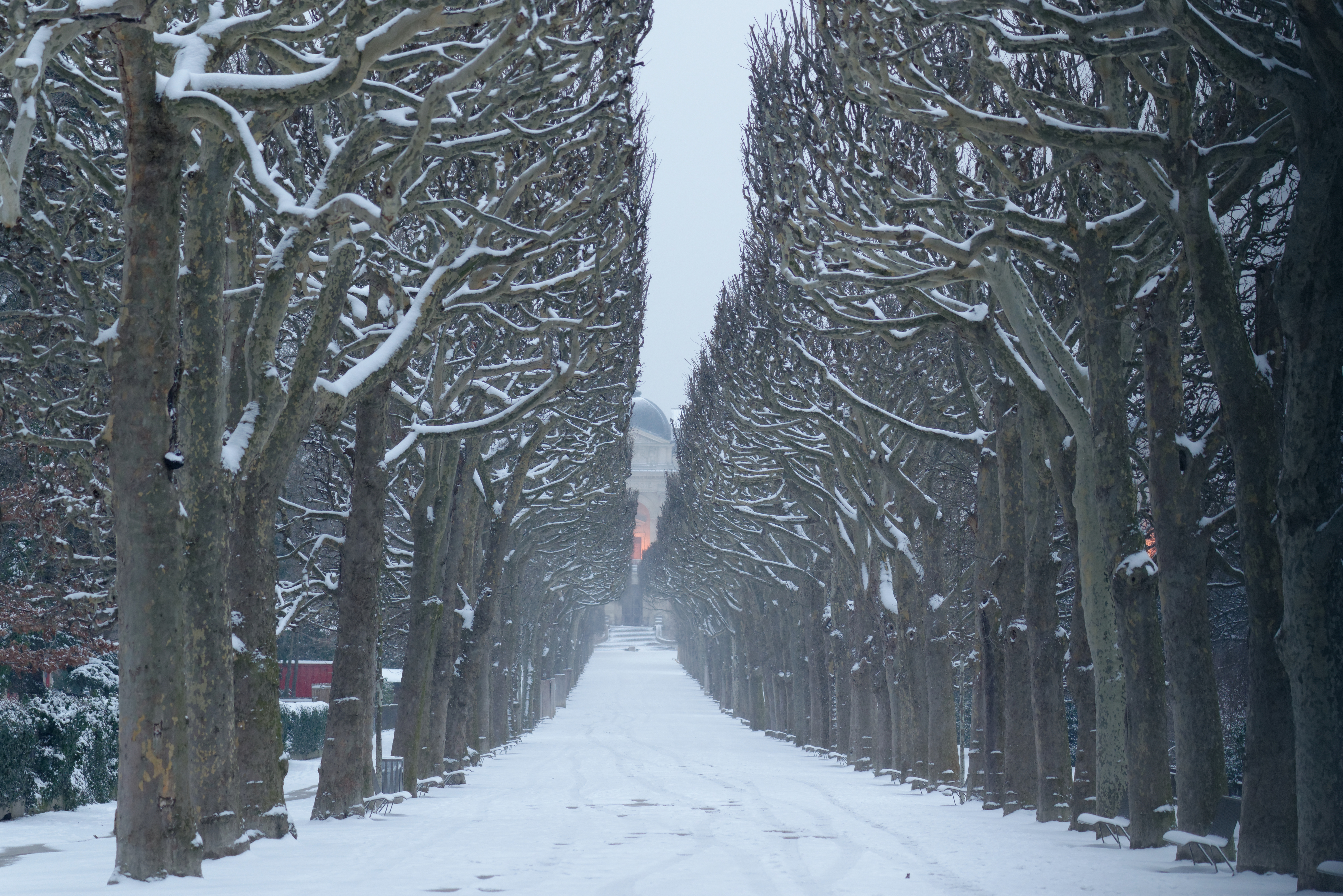 The Jardin des Plantes of Paris under the snow.